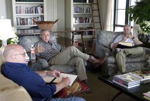 George W. Bush with Colin Powell and the Deputy Secretary of State at the Prairie Chapel Ranch.